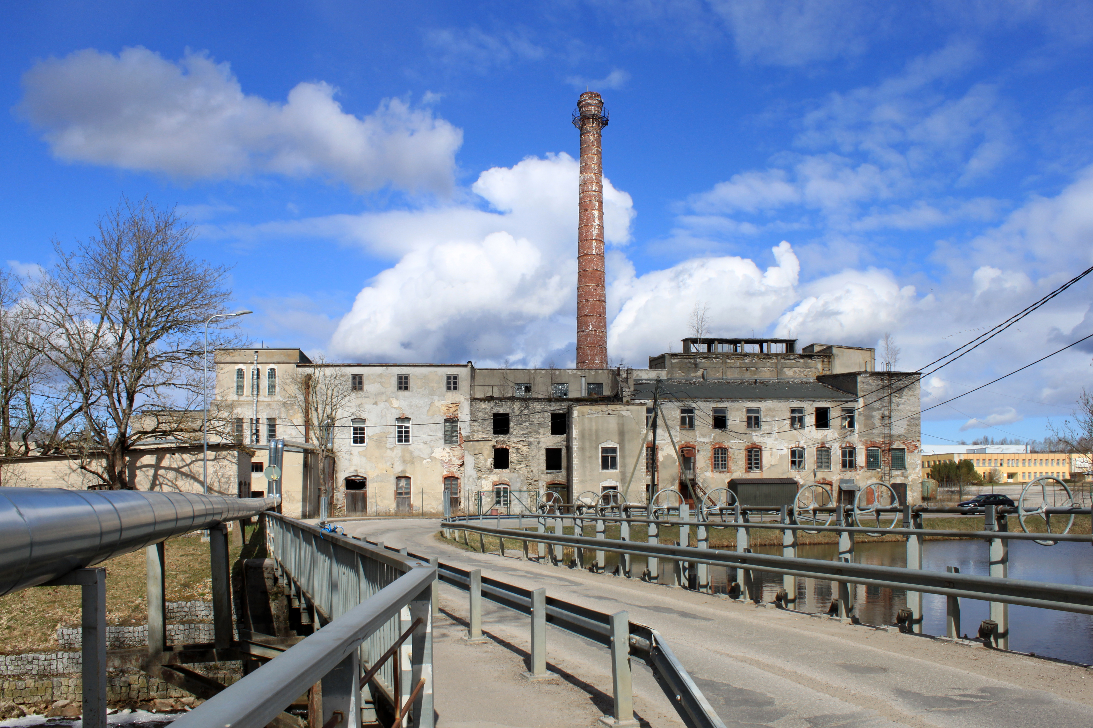 Old paper factory in Kohila small town, Estonia